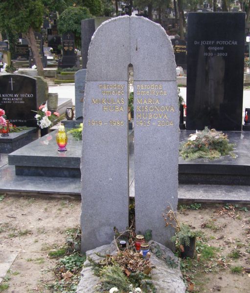 grave of Mikuláš Huba, Slovak actor, (1919-1986), and his wife Mária Kišonová-Hubová, opera singer (1915-2004), Slávičie údolie cemetery, Bratislava, Slovakia, author of this gravestone is sculptor Marián Huba